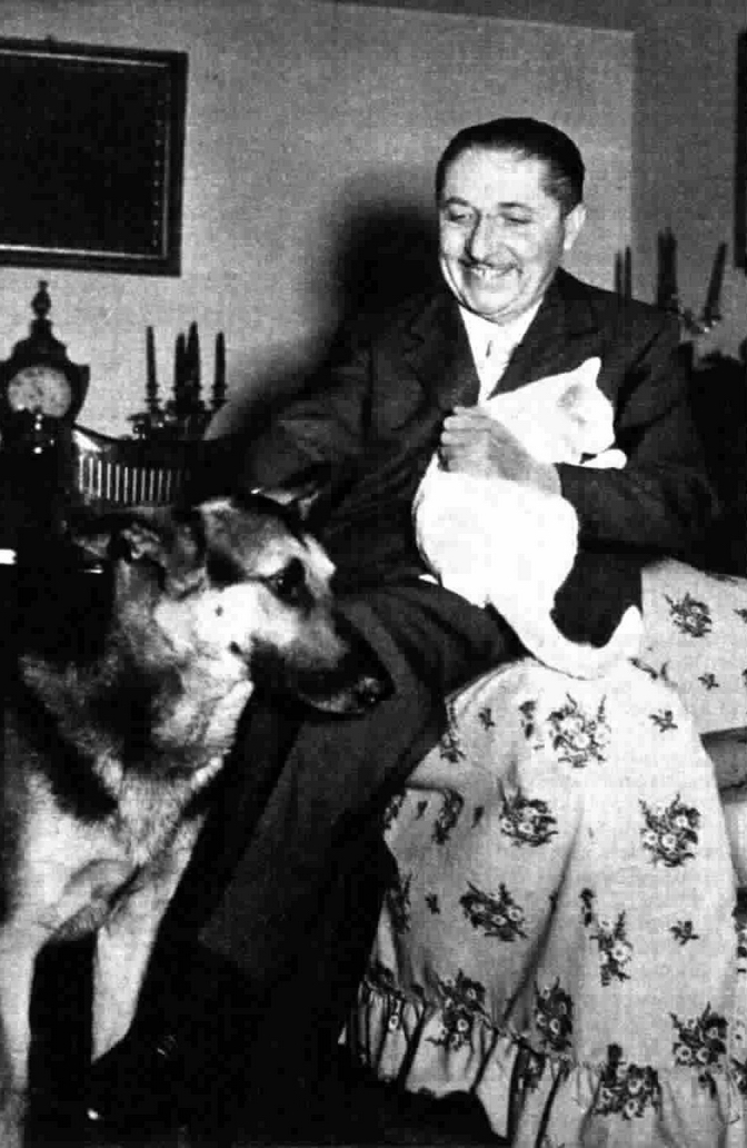 Italian writer Diego Calcagno